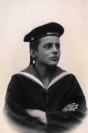 Frits Vilhelm Holm (1881-1930), Danish adventurer and self-styled "Duke of Colachine"